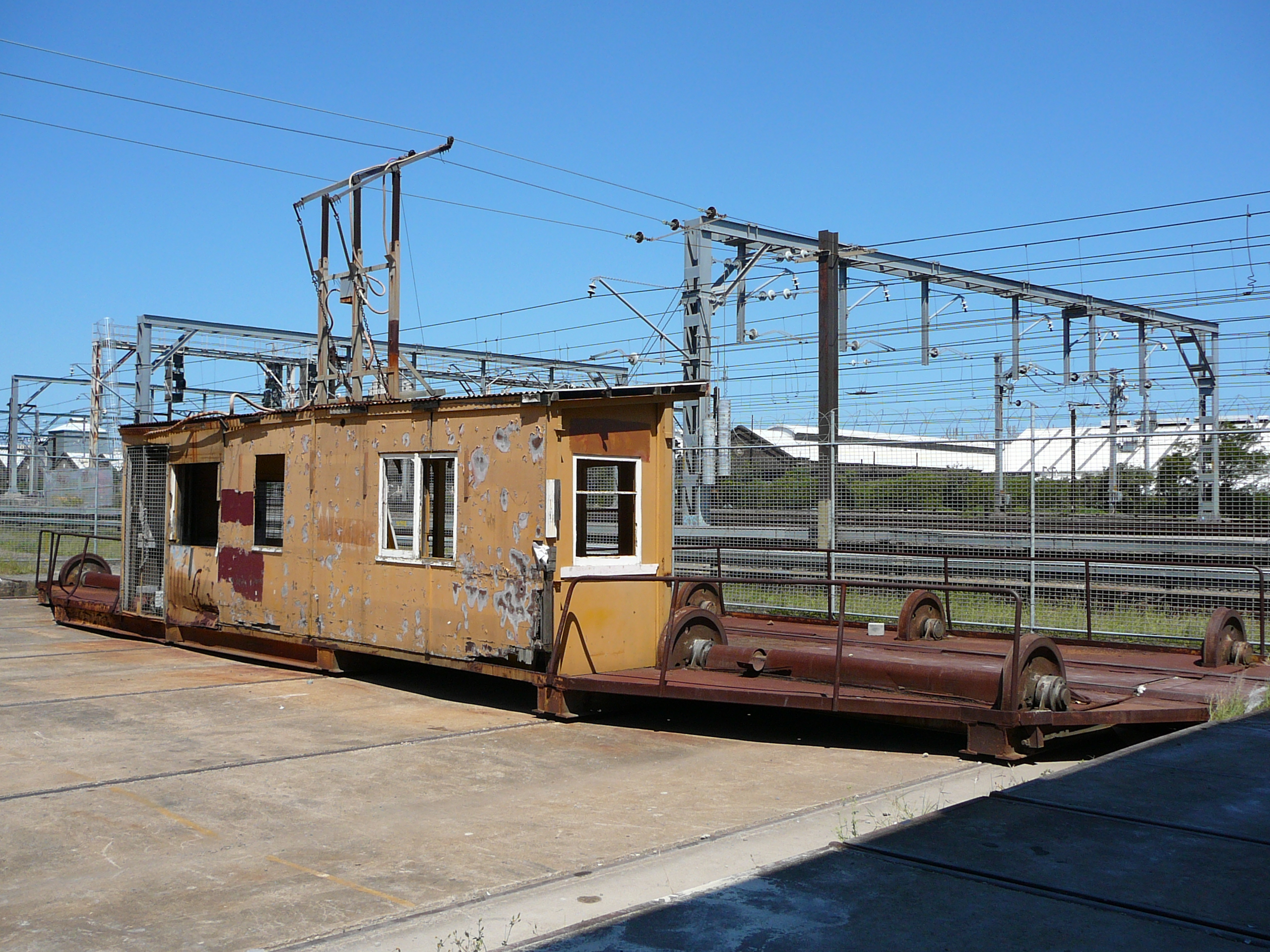 Old traverser at Eveleigh railway workshops near Redfern, New South Wales. Note the overhead power supply arrangement.